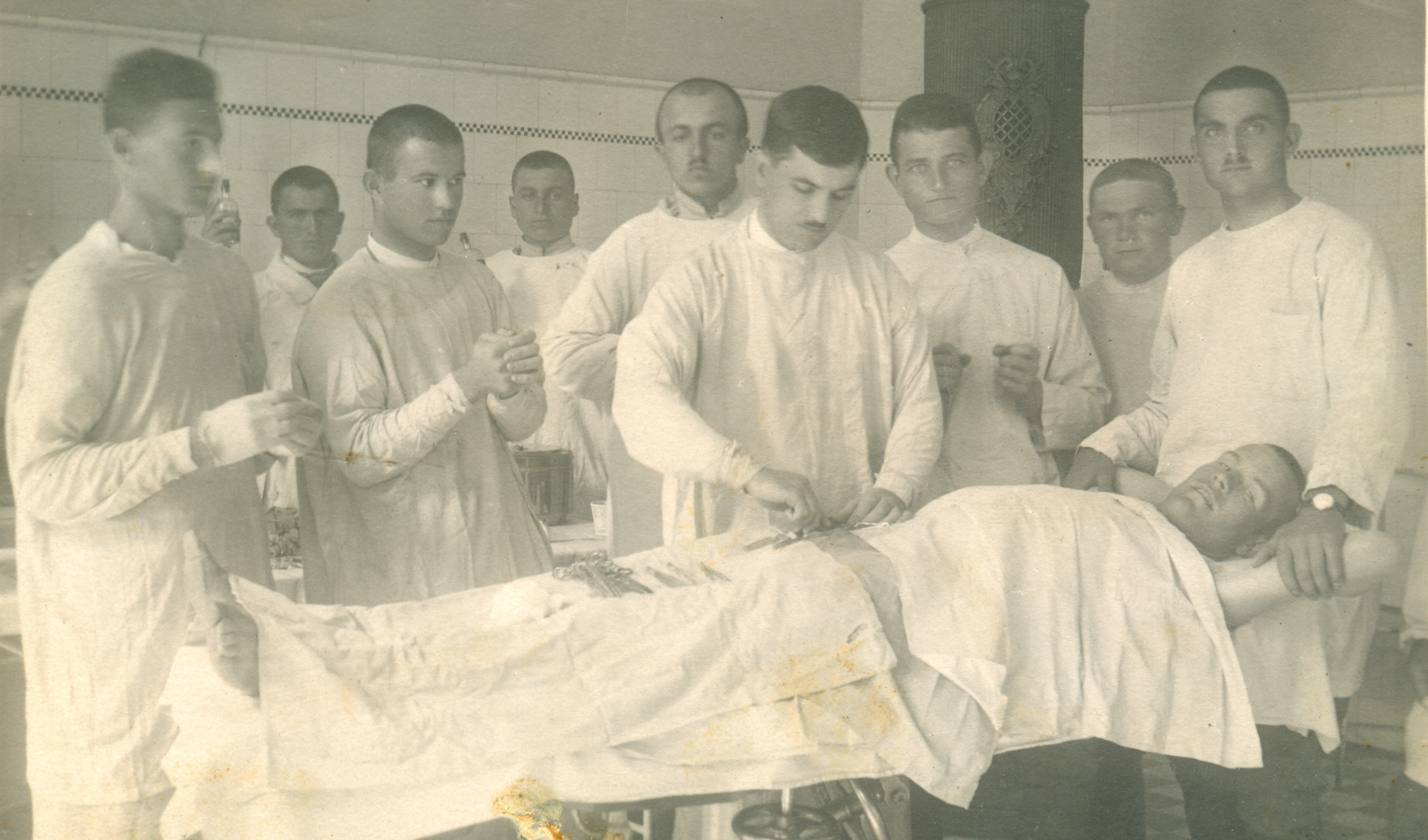 Dr Miodrag Kostic, surgeon doctor, the first warden of the hospital in Negotin 1932. as a young doctor during surgery Srpski (latinica): Dr Miodrag Kostić, specijalista hirurgije i prvi upravnik bolnice u Negotinu 1932. kao mlad lekar najverovatnije tokom operacije